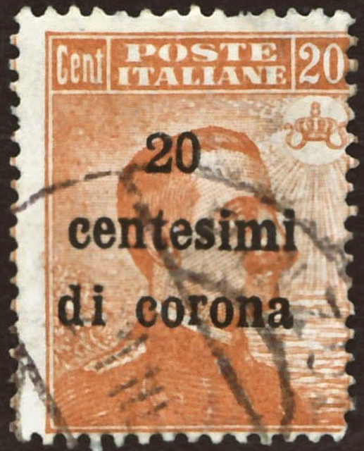 Stamp of Italy for occupated areas of the former Hungary-Austrian monarchy; 1919; general issue; definitive stamp oif the Italian issue "Michetti - type I/III" from 1916 with three-lines overprint "20 /centesimi / di corona" (=Italian for "20 hundredth of a crown"); portrait of King Victor Emmanuel III of Italy with view to right after a painting of Francesco Paolo Michetti; drawing with visible star on the left collar; no point at "Cent"; stamp without watermark; upper inscription with inverted (negative) letters (white characters on colored background) Excursus to the background: In Italian occupated territories of the former Hungarian-Austrian monarchy was not introduced the "Lire" as new currency, rather the old Austrian "Krone" (= crown = "corona") was kept as circulation currency. Italian money had no validity (with exception of Dalmatia in later time), so that the usable stamps became an overprint according to the nominal value in the local valid currency. stamp postmarked Stamp: Michel No. 5; Yvert & Tellier: No. 5 Color: orange to brown with black overprint Watermark: Italy No. 1 (crown) Postage validity: 1919-1922 (...?) Stamp picture size (printed area): 17.5 x 23.5 mm